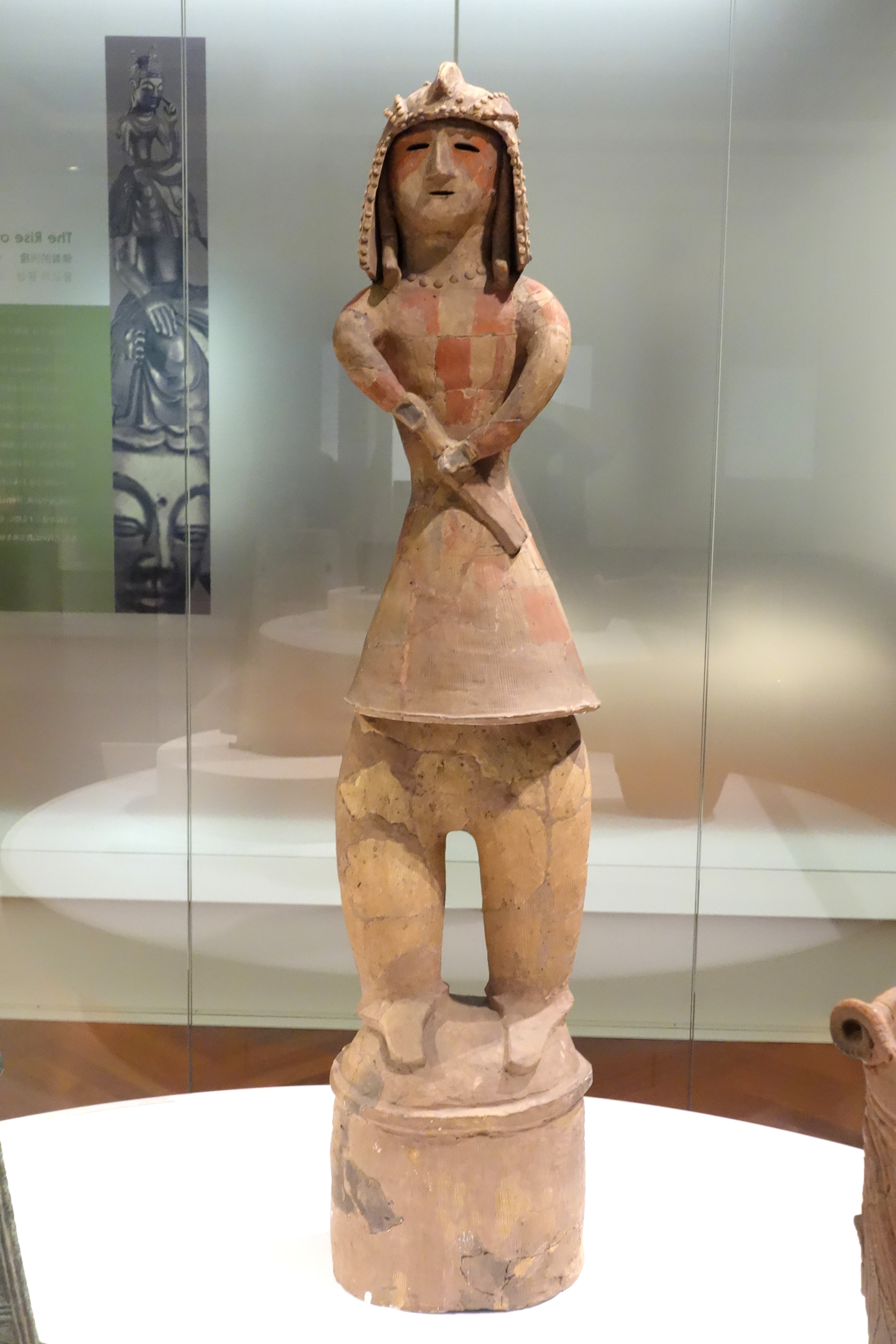 Exhibit in the Tokyo National Museum, Tokyo, Japan. This artwork is old enough so that it is in the public domain.